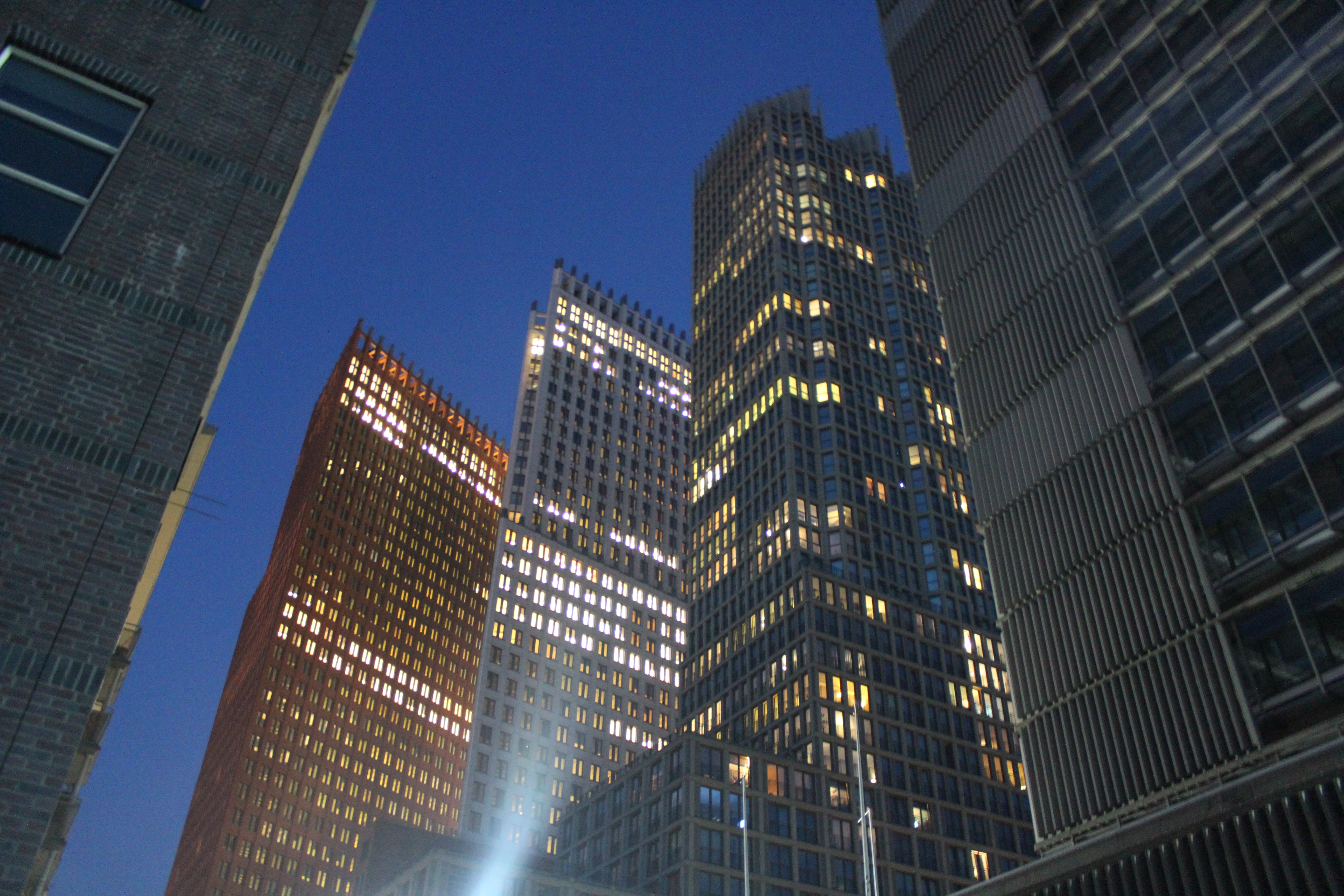 The Hague - Turfmarkt